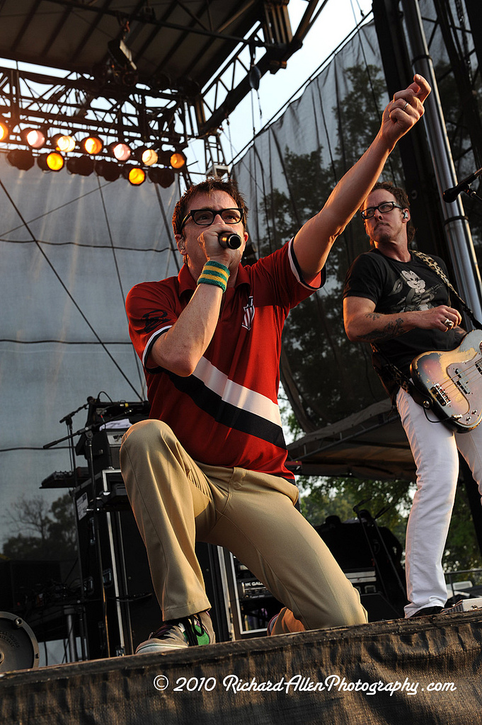 Weezer performing at Bonnaroo on March 6, 2009